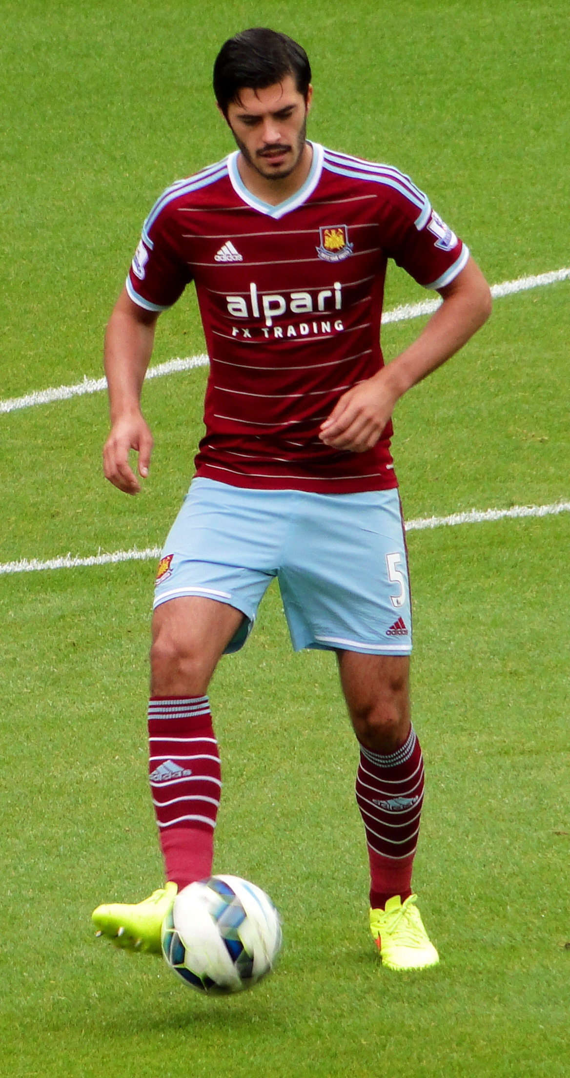 West Ham United's James Tomkins at the Boleyn Ground playing against Southampton, August 2014